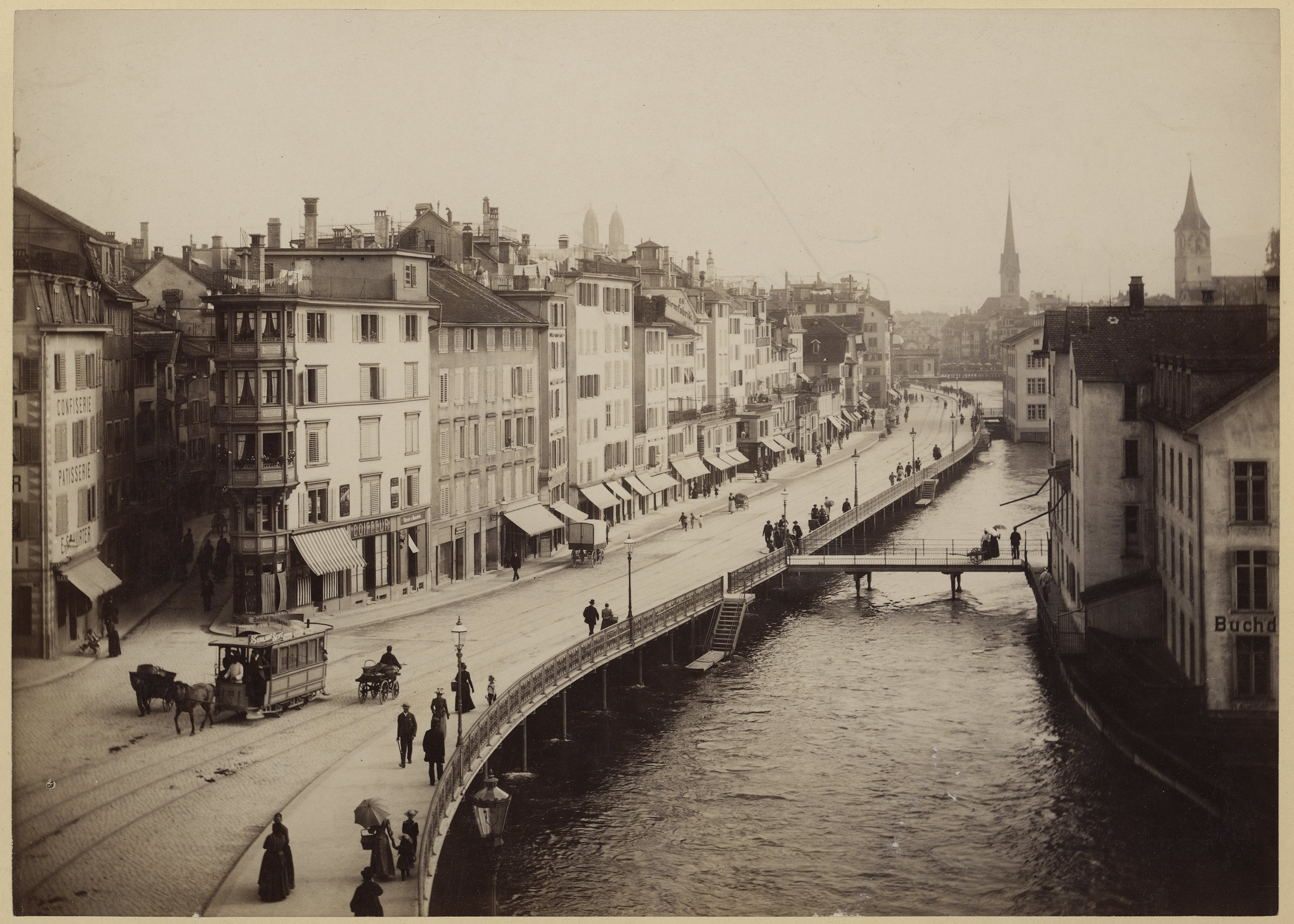 Limmatquai, Zürich, Switzerland